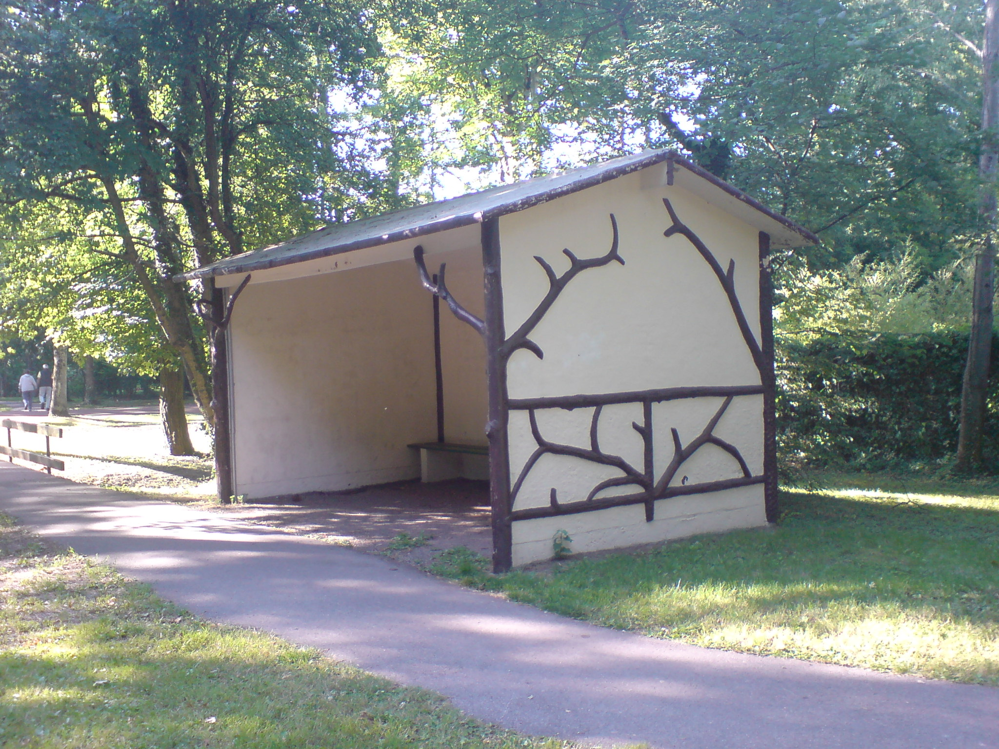 1 Summary Le Touquet-Paris-Plage View of the former building of a tram station in 2008 - Avenue de Picardie